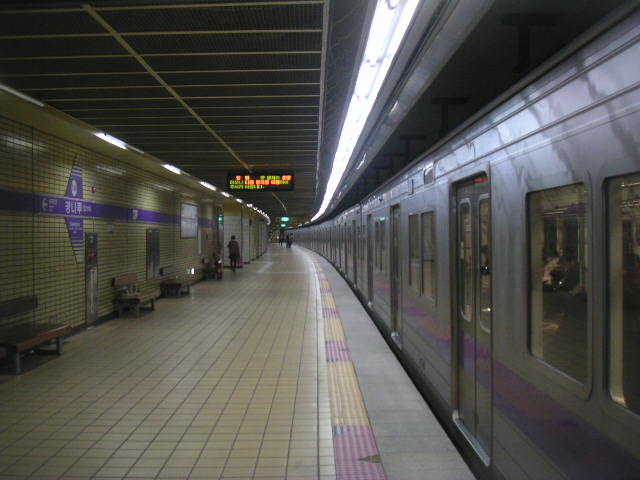 Seoul subway, station Gwangnaru (line 5)